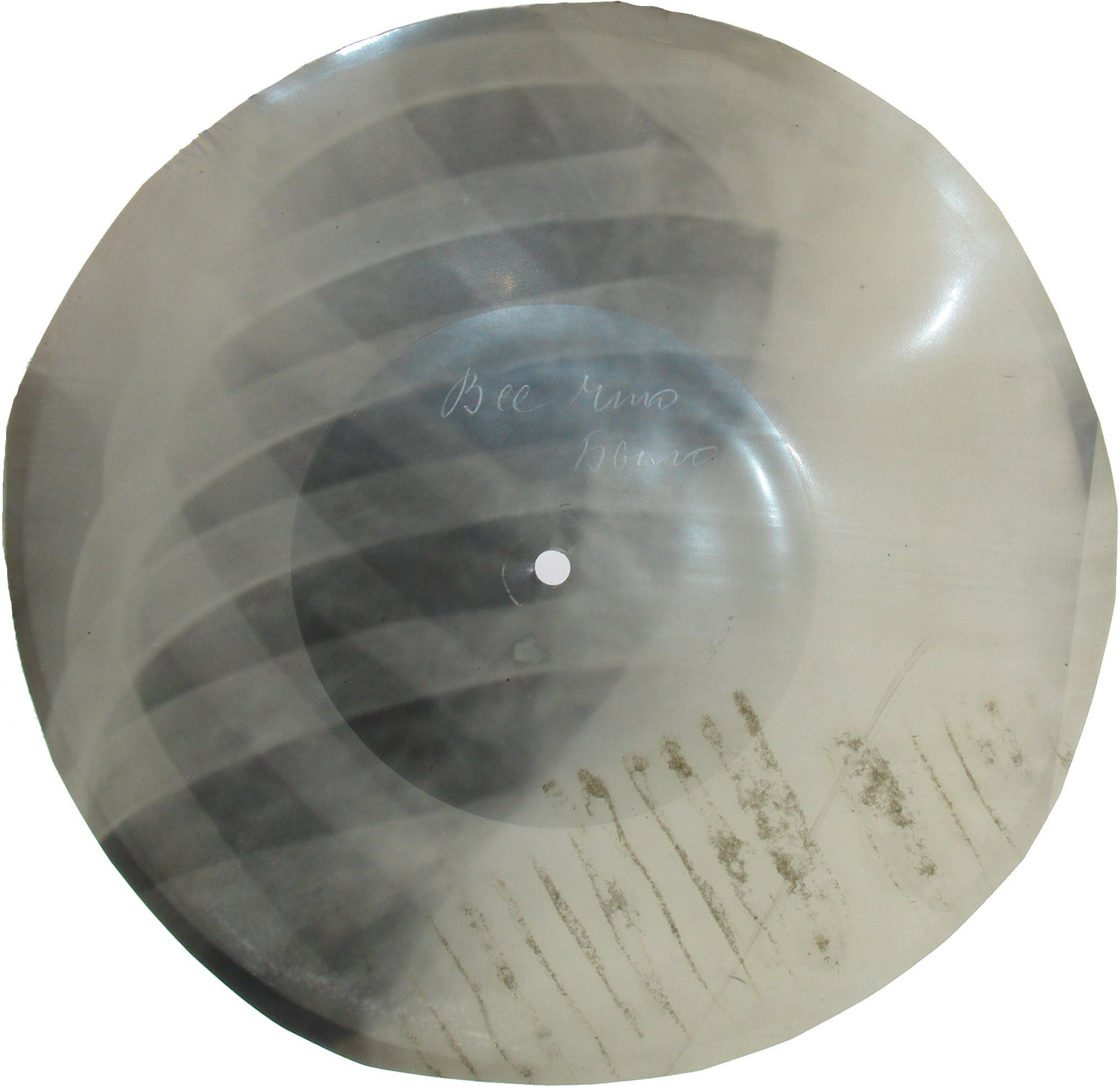 Record of a song by Pyotr Leshchenko recorded privately on radiographic film in 1937.